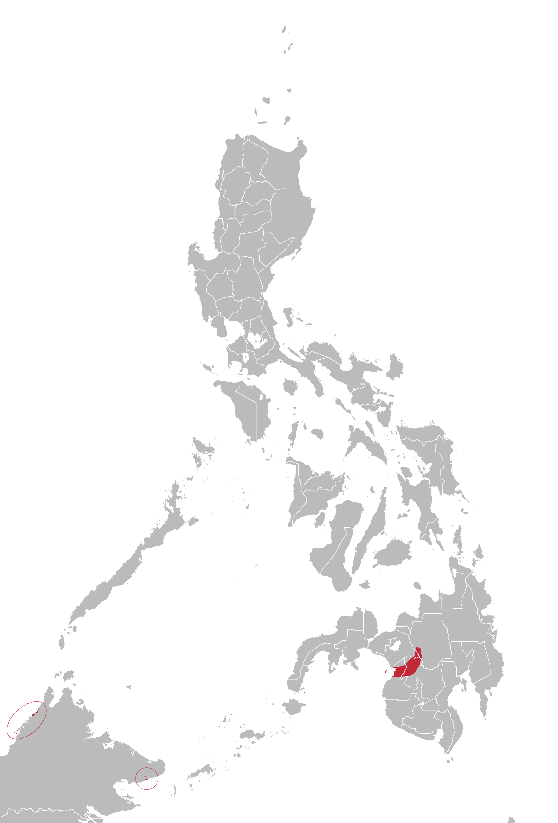 Iranun language map based on Ethnologue maps